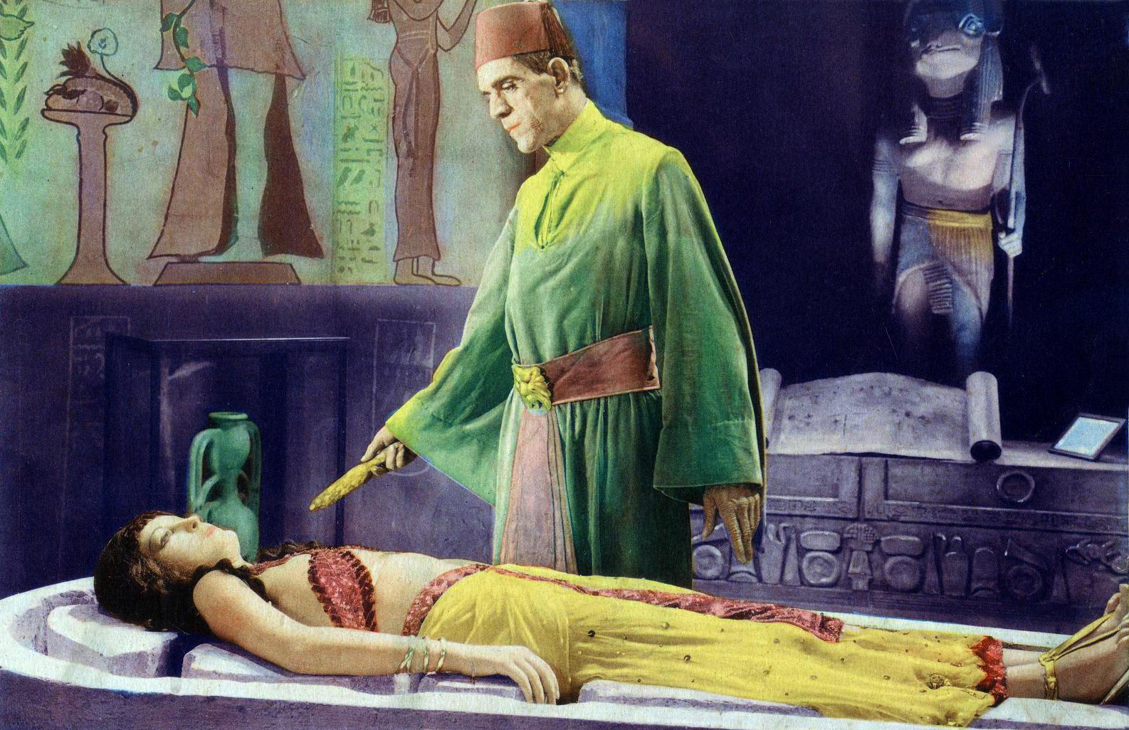 Cropped and edited lobby card for the 1932 film The Mummy, featuring Boris Karloff. This image is assumed to be in the public domain, as no copyright notice is in evidence, see details below. The item has no copyright markings on it as can be seen in the links above and in the original uploaded copy. At bottom right is Litho in USA.